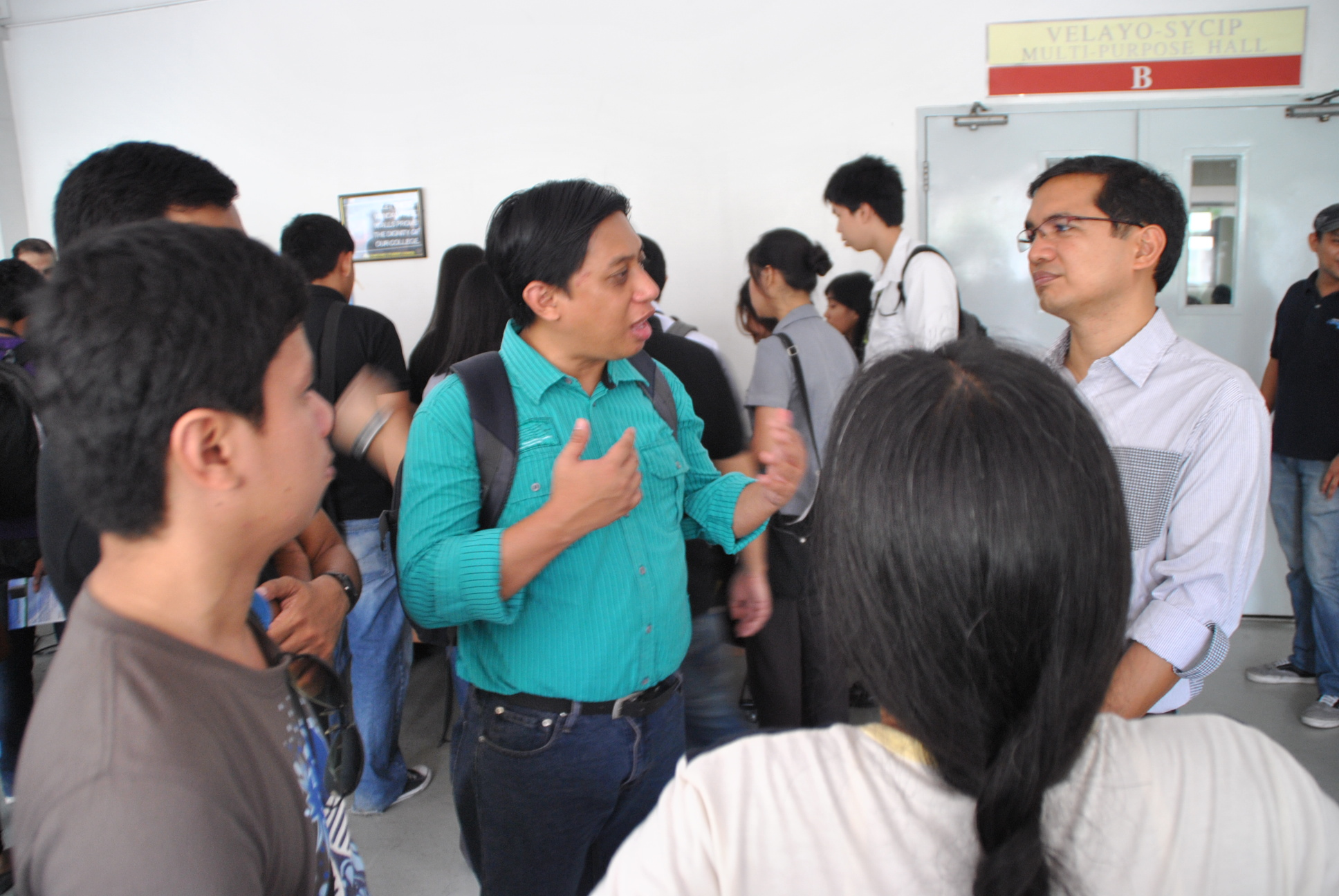 Congressman Teddy Casiño had a brief discussion with Wikimedia Philippines during the Software Freedom Day celebrations last Sept 17, 2011 at the AMV Hall, University of Santo Tomas, Manila.